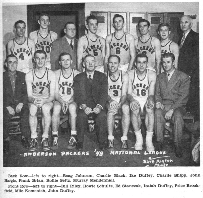 The 1947–48 Anderson Packers basketball team